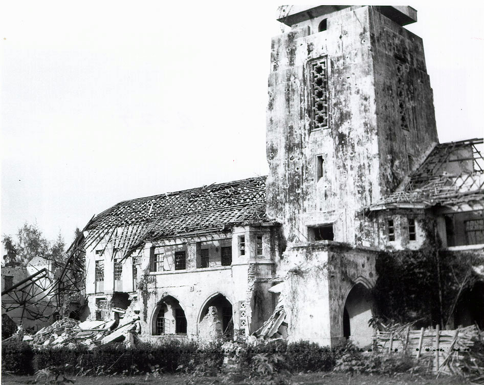 Scenes on the campus of Rangoon University, I think [this] was the administration building.